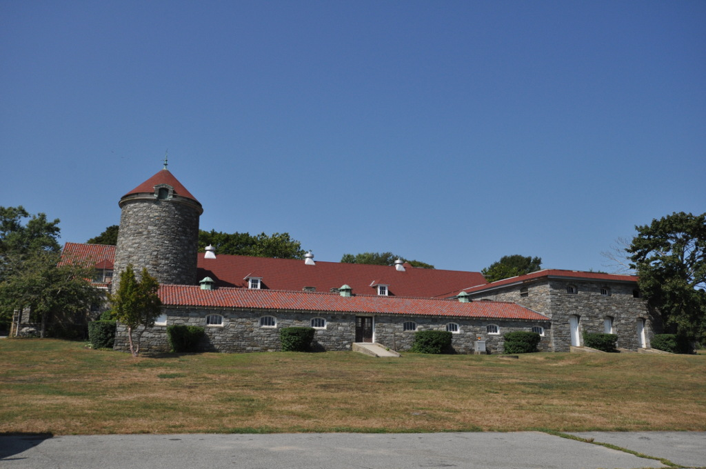 Main building, Colt State Park, in th ePoppasquash Farms Historic District, Bristol, Rhode Island.